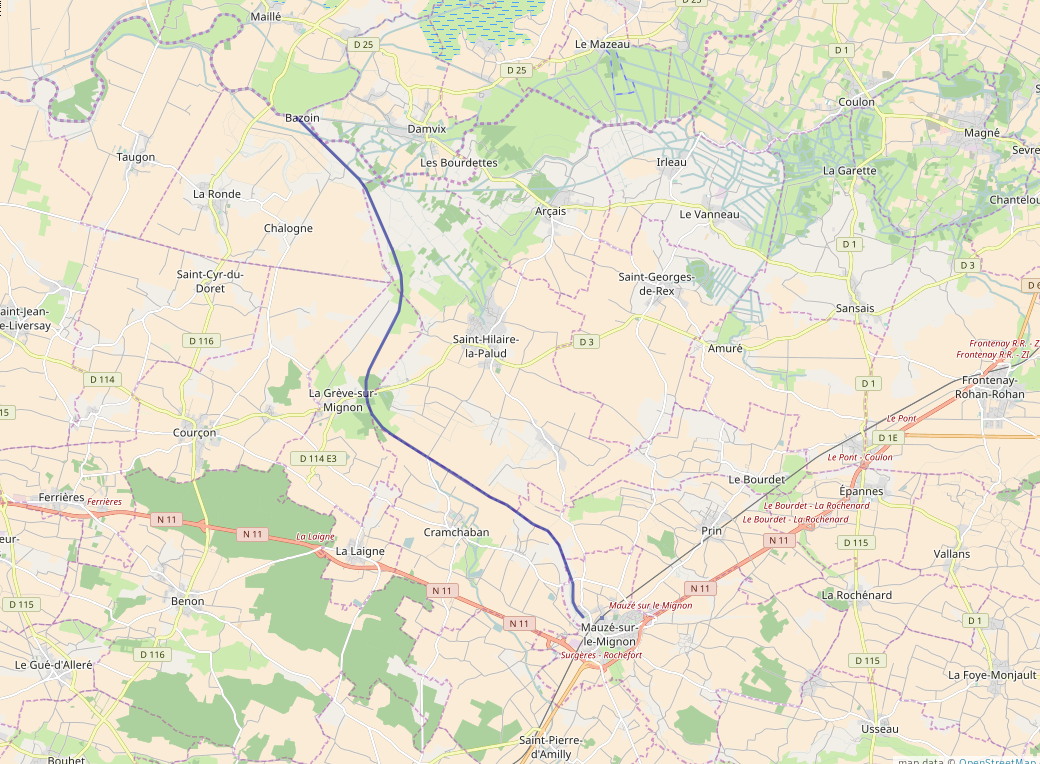 The Canal du Mignon (in blue), crossing the departments: Deux-Sèvres and Charente-Maritime (in France).